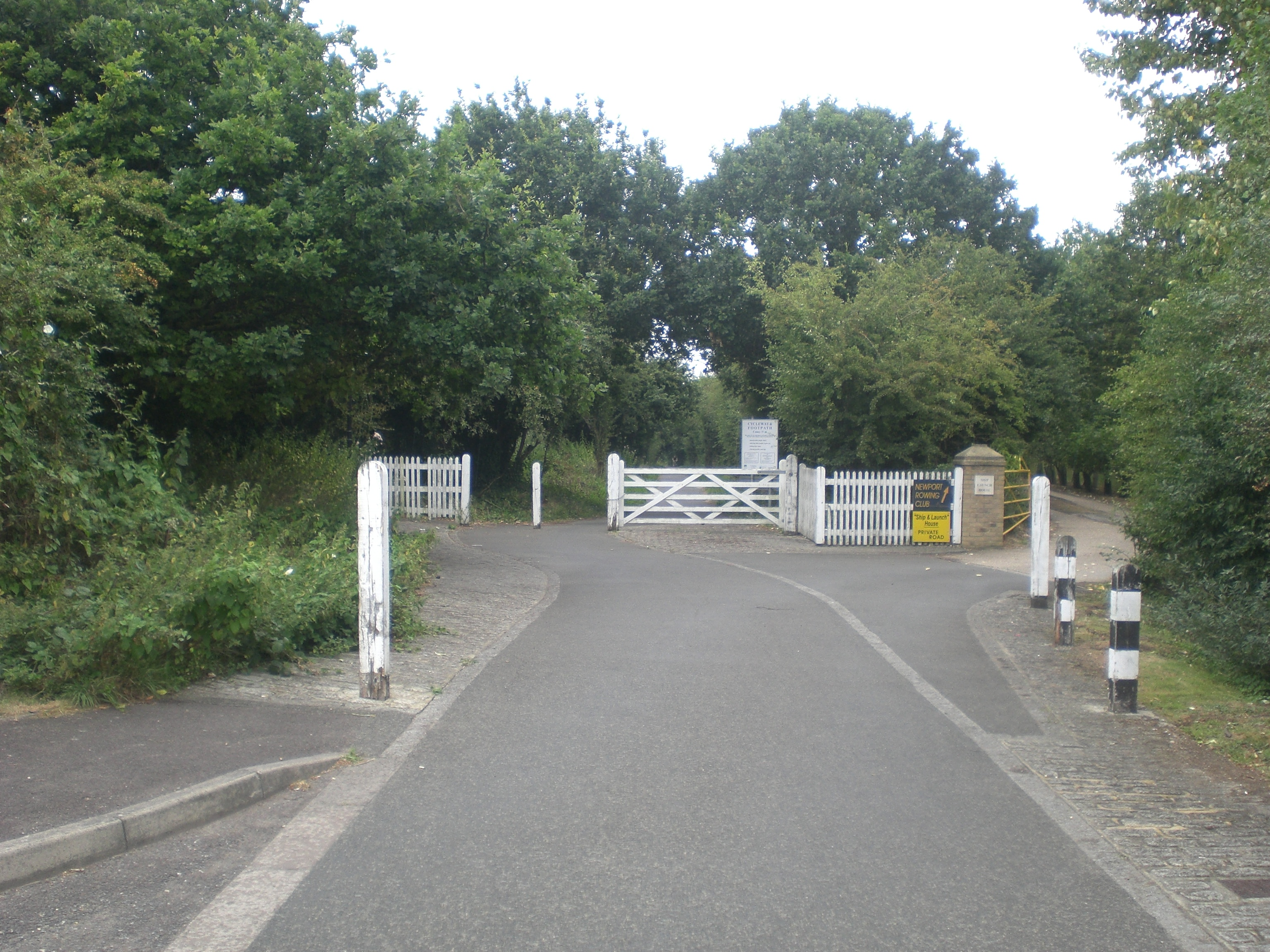 A stretch of the National Cycle Route 23 in the Cowes direction at Newport industrial estate.